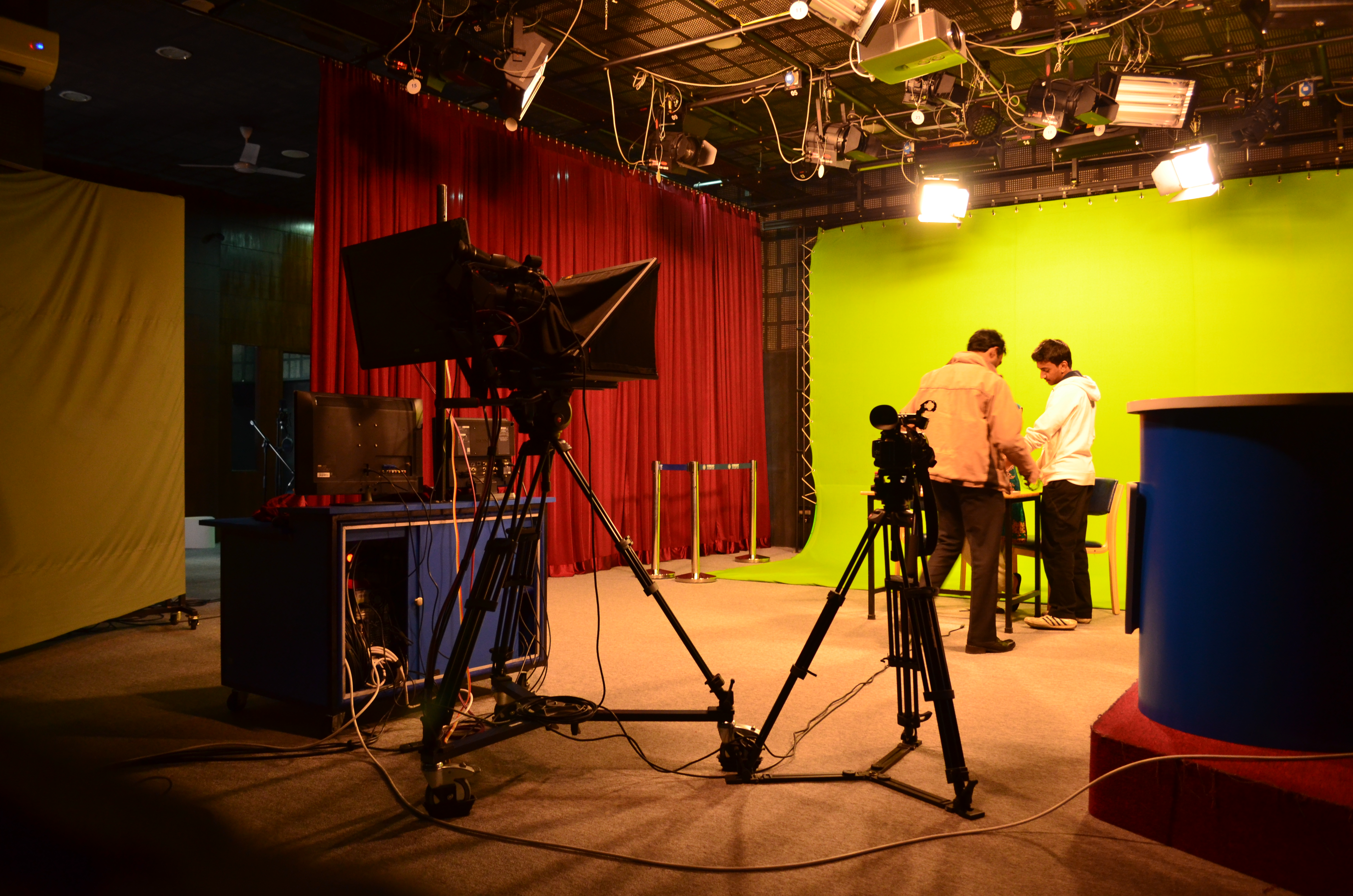 Students from Christ University acting for a short tutorial video shoot on Wikipedia editing.